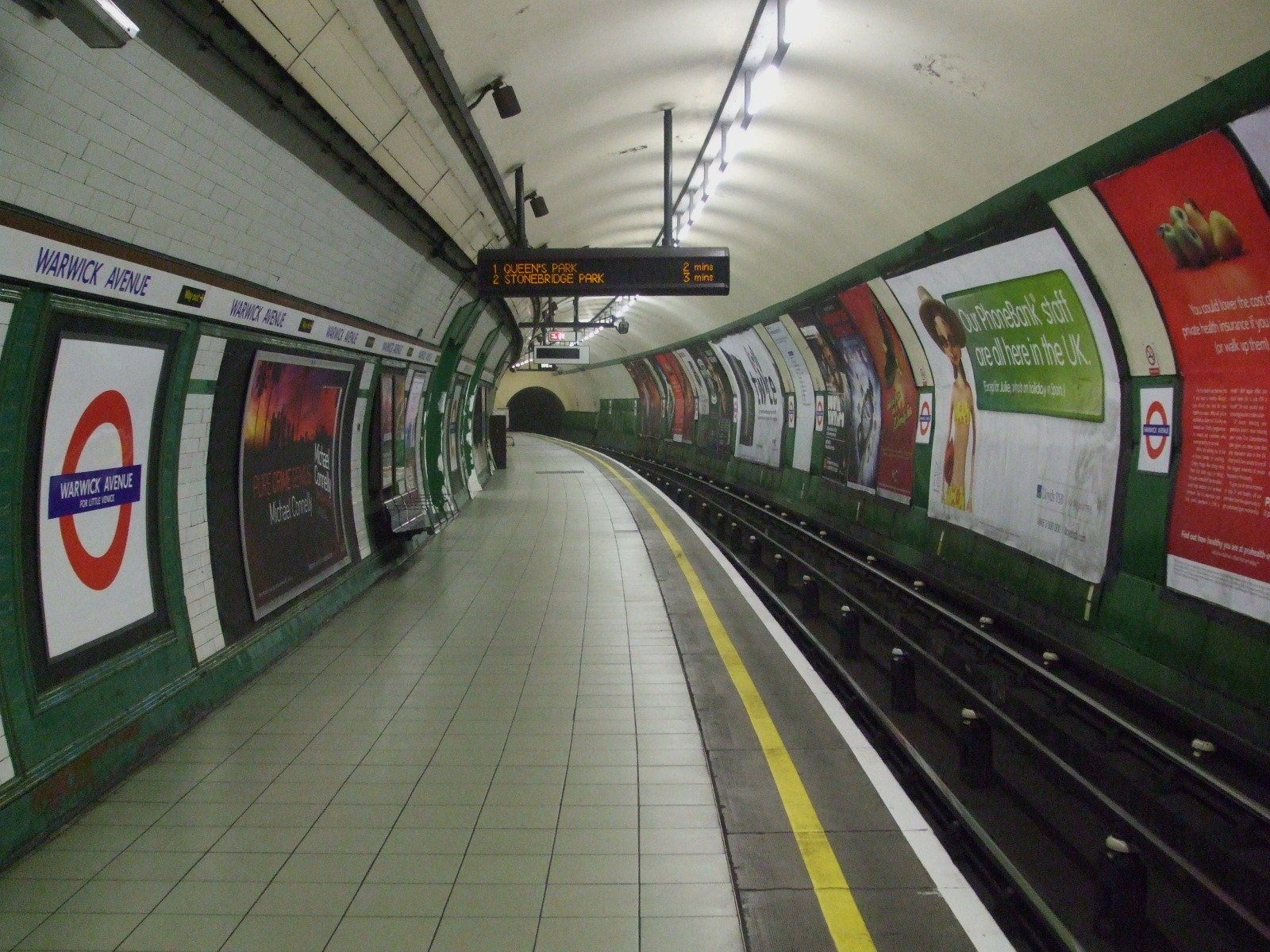 Warwick Avenue tube station northbound platform looking south